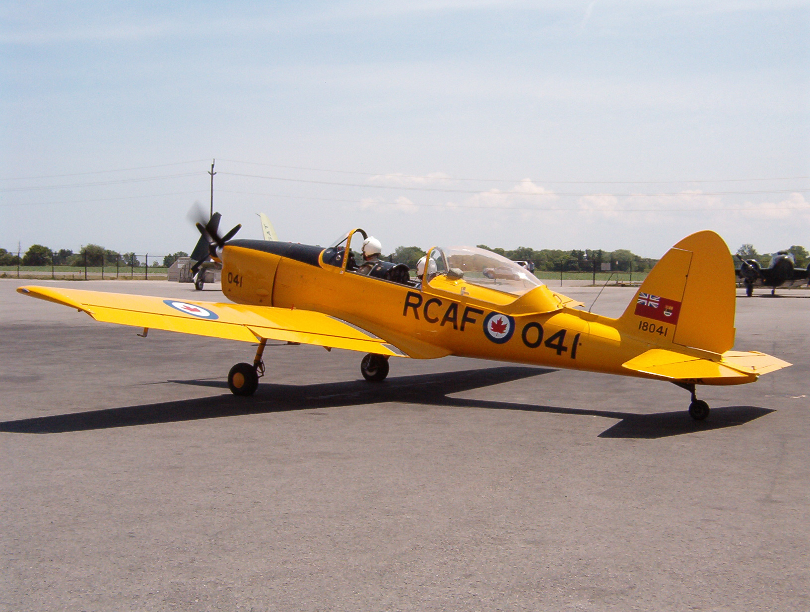 I took this image on Sunday, June 17, 2007 at the Canadian Warplane Heritage Museum in Hamilton, Ontario, Canada. It is for use in the Wikinews reporter attends warplane airshow in Hamilton, Ontario, Canada article.